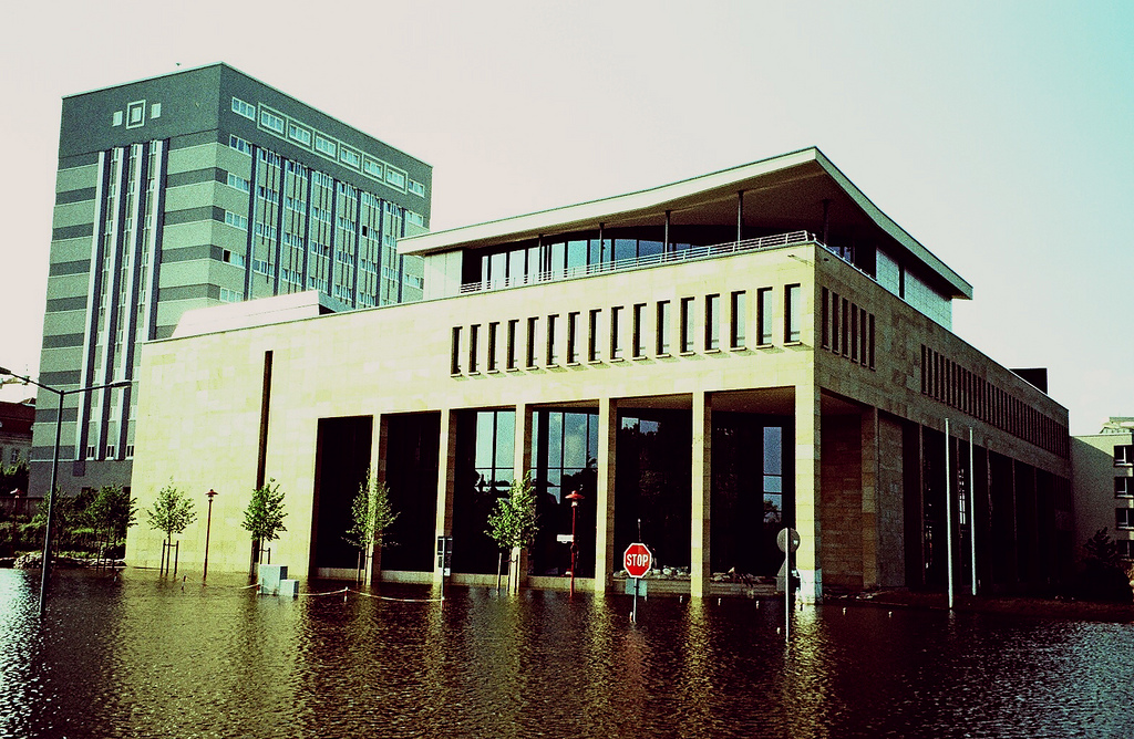 Frankfurt Oder (Germany), 1997 Sparkasse building in the Oder flood.